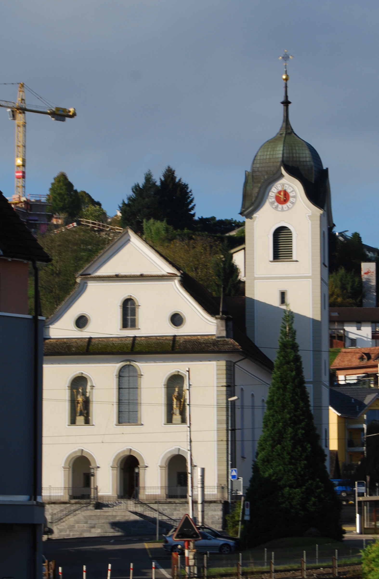 Catholic church of Wollerau, canton of Schwyz, SwitzerlandEsperanto: Katolika preĝejo de Wollerau, Kantono Ŝvico, Svislando